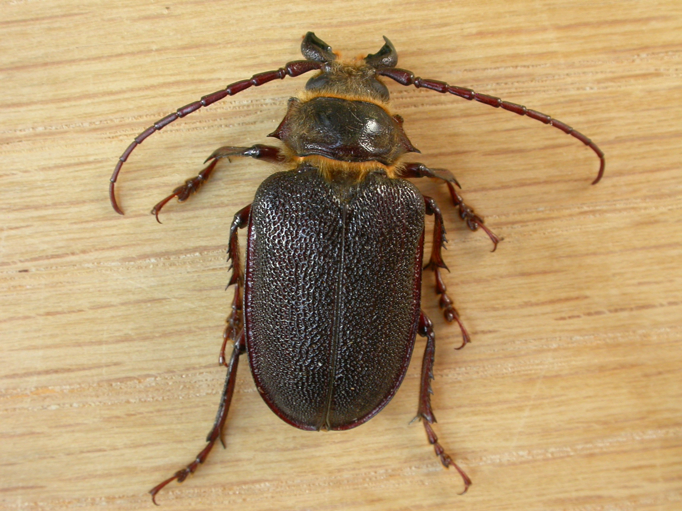 Sceleocantha glabricollis Newman, 1840, to MV light, Blackheath, NSW, 15/16 January 2009